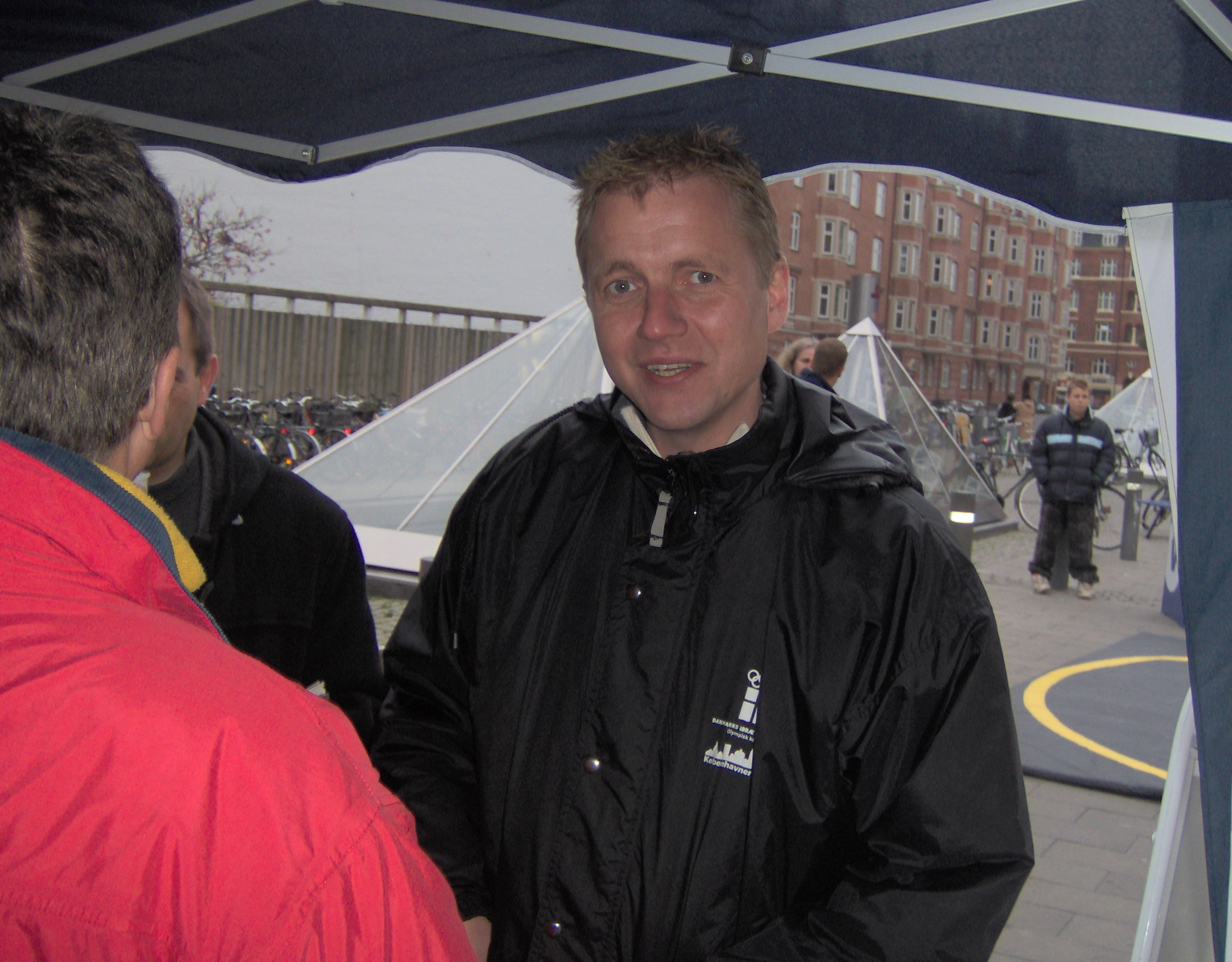 Martin Geertsen in 2005